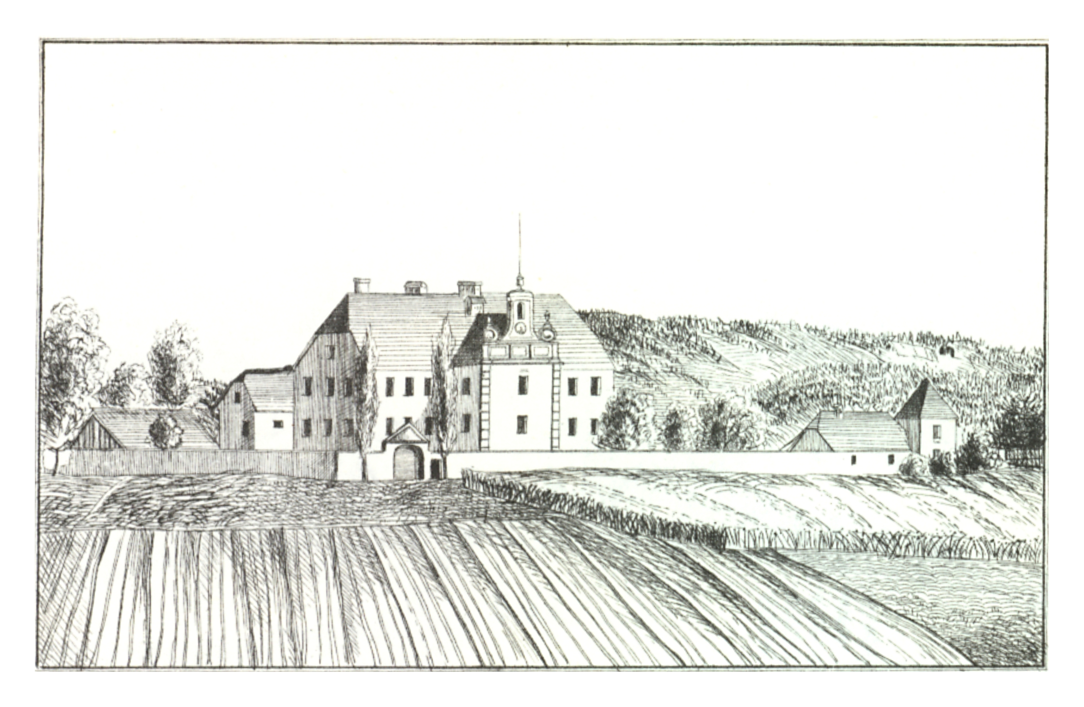 J. F. Kaiser - lithographirte Ansichten der Steyermärkischen Städte, Märkte und Schlösser Graz, 1825 Scanprojekt Community Projektbudget 2012 This scan or this PDF-file was created within the GLAM-project Bookscanning, supported by Wikimedia Germany and Wikimedia Austria as a part of the community-project to capture books, documents and pictures which are not eligible to copyright or for which the copyright has expired. This document describes or depicts an object which is located in Austria today. Send requests for uncompressed scans to Hubertl. This work is in the public domain in its country of origin and other countries and areas where the copyright term is the author's life plus 100 years or less. You must also include a United States public domain tag to indicate why this work is in the public domain in the United States. This file has been identified as being free of known restrictions under copyright law, including all related and neighboring rights.